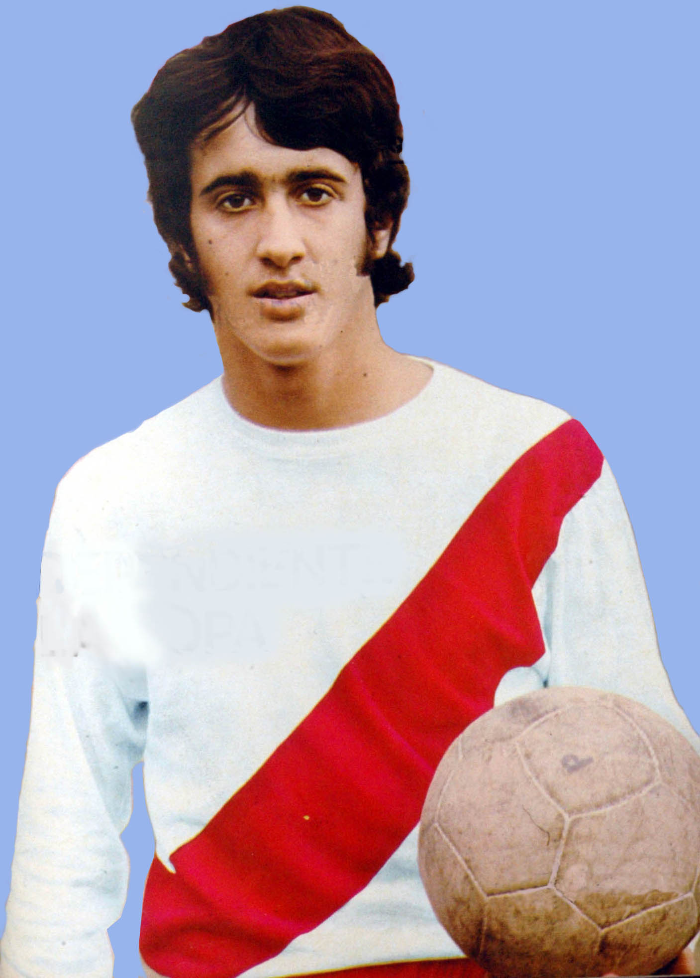 Argentine football player, Norberto Alonso.